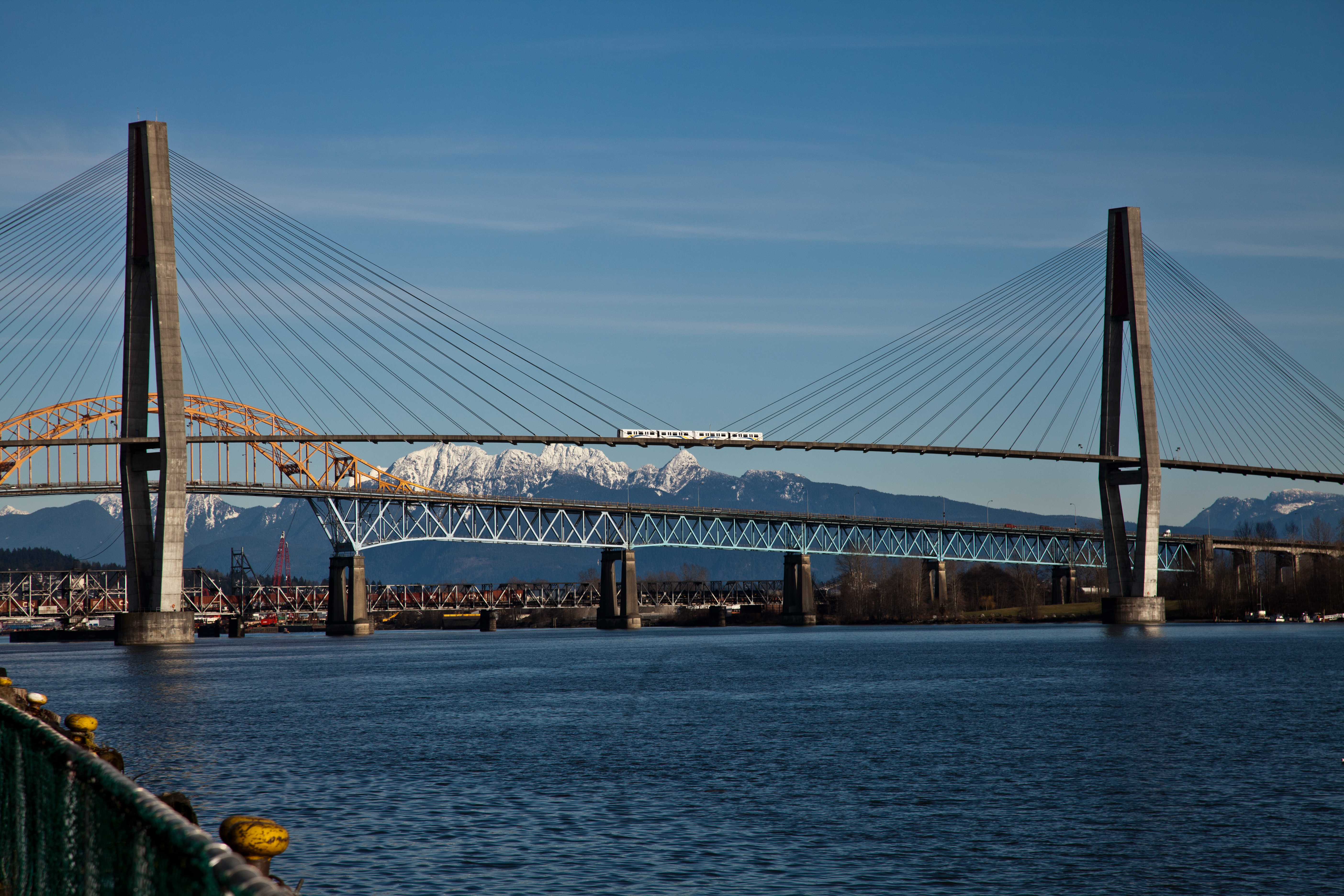 SkyTrain Passing By On The Bridge